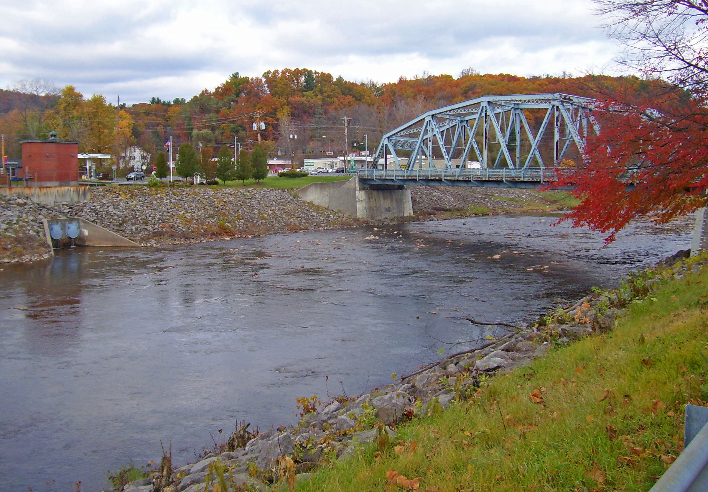 NY 32 and 213 crossing Rondout Creek at Rosendale, NY, USA